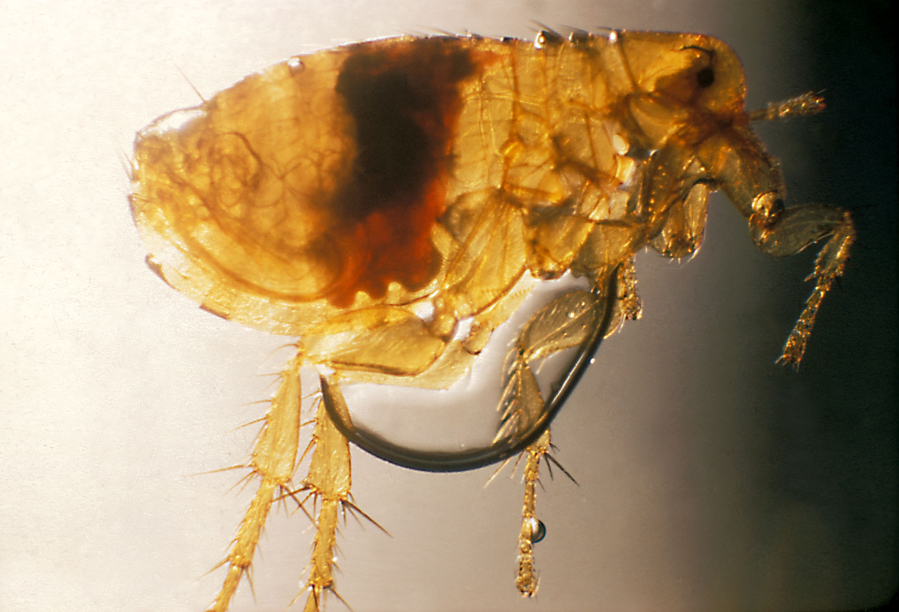 ID#: 2069 Description: Plague infected male Xenopsylla cheopis 28 days after feeding on an inoculated mouse. During feeding, the flea draws viable Y. pestis organisms into its esophagus, which multiply and block the proventriculus just in front of the stomach, later forcing the flea to regurgitate infected blood unto the host when it tries to swallow. Content Providers(s): CDC/Dr. Pratt Creation Date: 1948 (!?) Copyright Restrictions: None - This image is in the public domain and thus free of any copyright restrictions. As a matter of courtesy we request that the content provider be credited and notified in any public or private usage of this image.